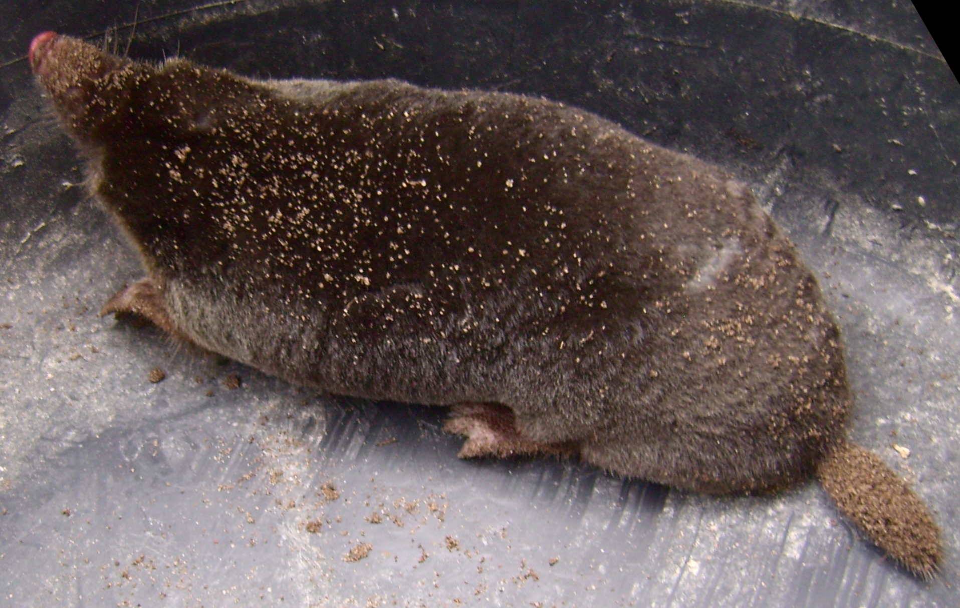 molehill